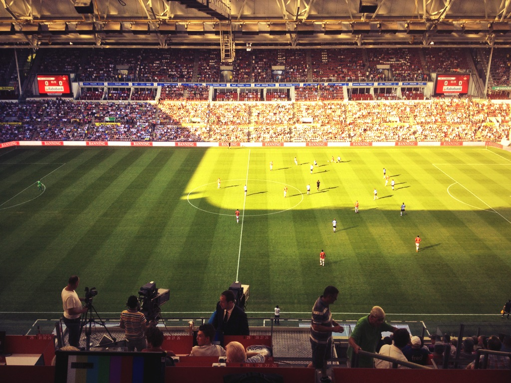 The view of the pitch of the Philips stadion from the press box. Summer 2103.